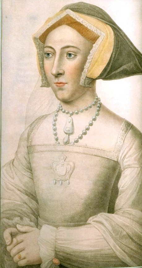 Portrait of Jane Seymour copied by Francesco Bartolozzi and published by John Chamberlaine:London 1792 with biography by Edmond Lodge